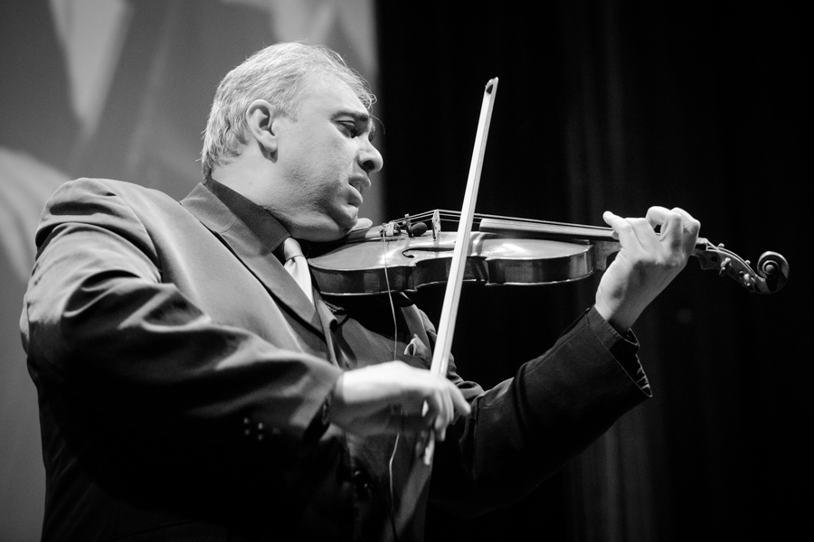 Florin Niculescu in concert with Marian Petrescu at Cosmopolite. The concert was part of Djangofestivalen and took place on 19. January 2018 in Oslo. Lineup: Florin Niculescu (violin), Marian Petrescu (piano), Mihai Petrescu (double bass), Håkon Mjåset Johansen (drums) and Olli Sokkeili (guitar).